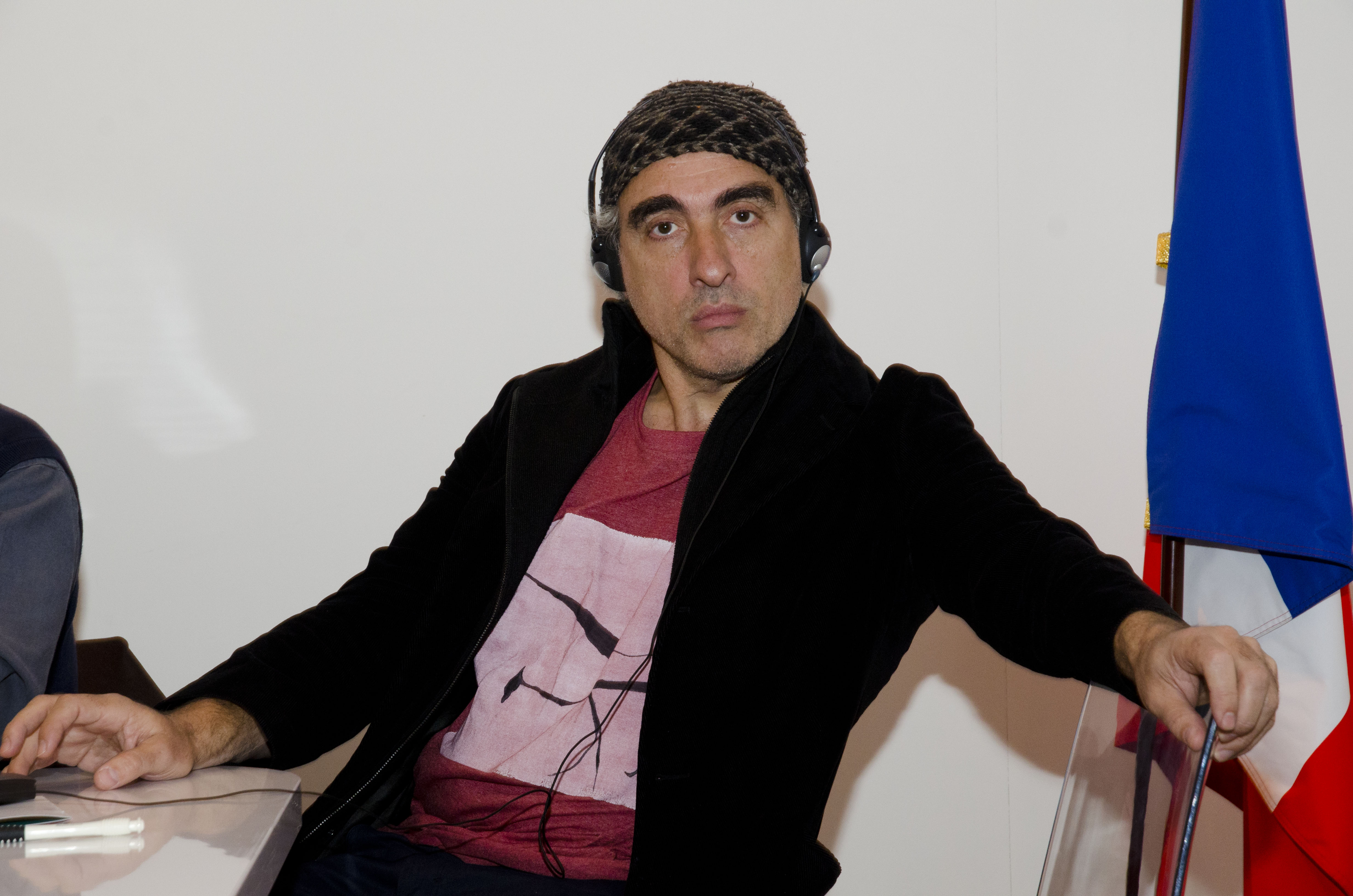 Paris, 24 de marzo de 2014 - Juan Sasturain, José Muñoz y Miguel Rep participaron de la mesa "El Eternauta: Una historieta de culto" en el pabellón argentino del Salón del libro de París 2014. La moderación estuvo a cargo de Daniel Divinsky. Fotos: Augusto Starita / Secretaría de Cultura de la Presidencia de la Nación.